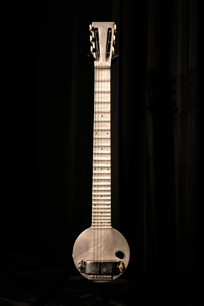 Ro-Pat-In Cast Aluminum Electric Hawaiian "Frying Pan" Guitar. Reported by the previous owner to have been purchased directly from the inventor, this may very well be the earliest production model. The first and most obvious tip off that this is other than standard production is the name engraved on the peghead is Elektro, and not the more familiar Electro in script. Today, two early models have been found with this spelling but the style and application differ drastically. Research has determined that this is not a misspelling. The first recorded use of the name can be found in the official minutes of the “National Board of Directors” of which inventor George Beauchamp was a member. This example also is a bit cruder in its casting and layout, the fret spacing is not regular. But the most telling difference is the dimension. The body measures 6 ¼” across the face. Not only is this the only known cast example with these measurements, but it also of the same size as the wood prototype that hangs in the Rickenbacker Museum.